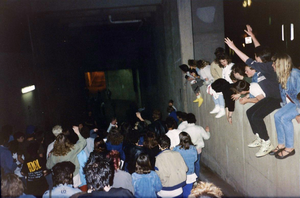 Fans outside the Hartford Civic Center after the 9 May 1987 U2 concert, waving at the band at the bottom of the ramp as the clock turns into Bono's 27th birthday.